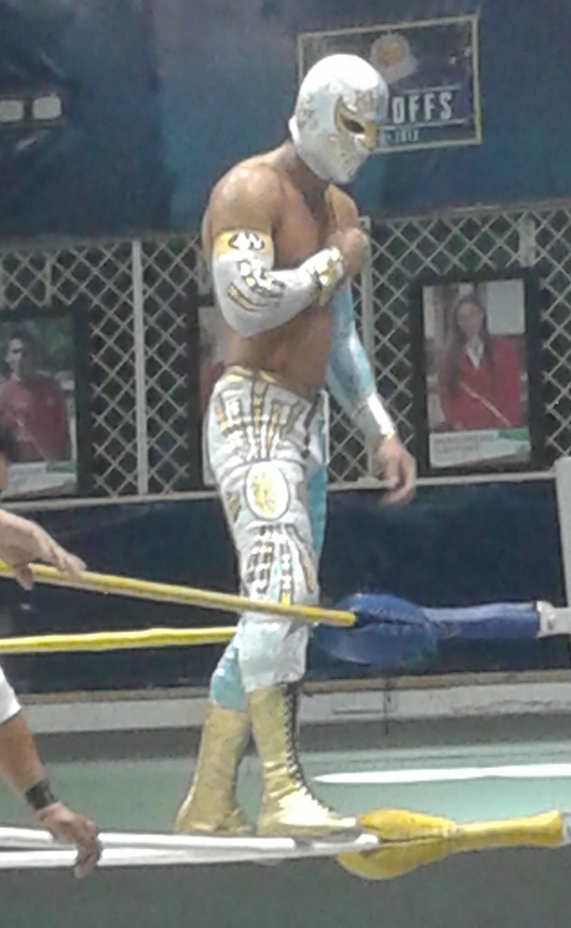 Místico II on May 12, 2013 in Gimnasio Nuevo León of Monterrey, Nuevo León.